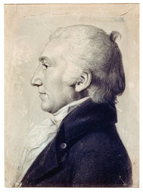 Michael Leib (1760 – 1822), an American physician and politician